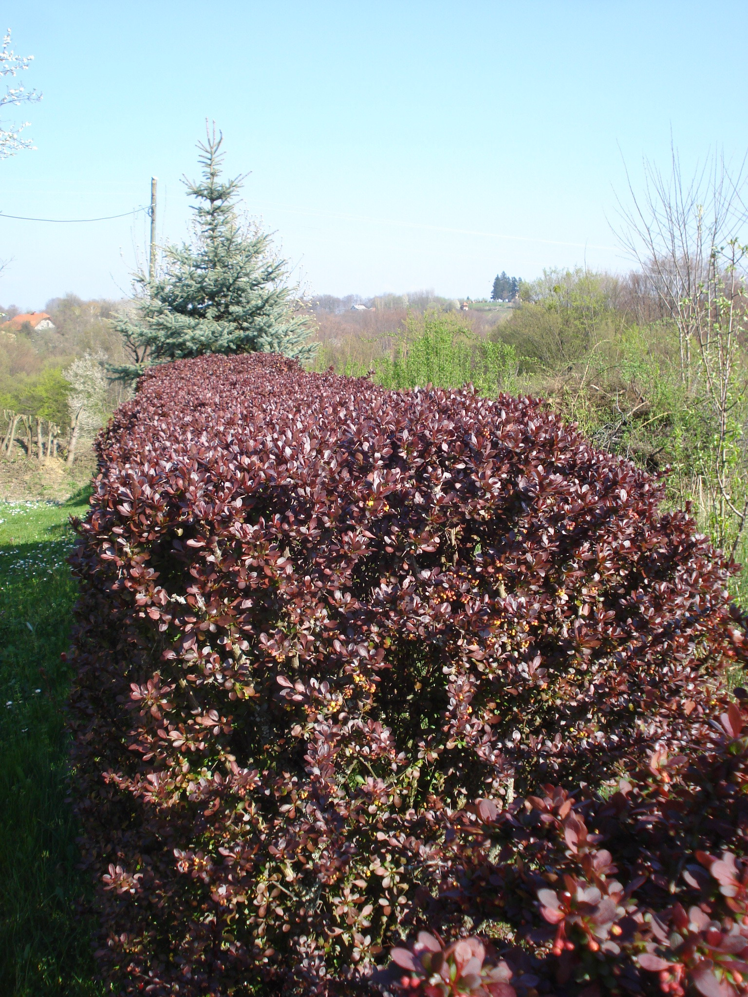 Barberry (Berberis vulgaris) hedge in early springtime (Međimurje County, Croatia)